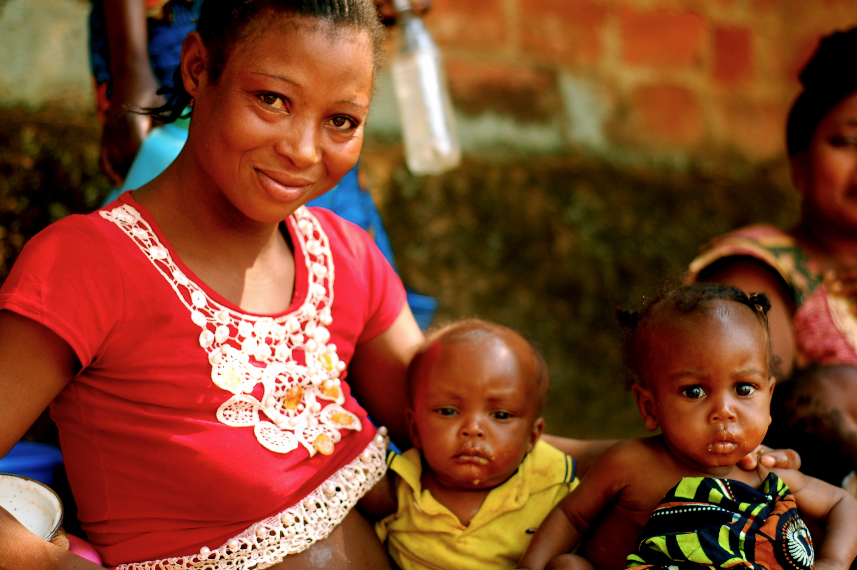 A woman and her two children wait outside a health clinic in M'banza Congo, Zaíre province, Angola to be seen by a health technician.